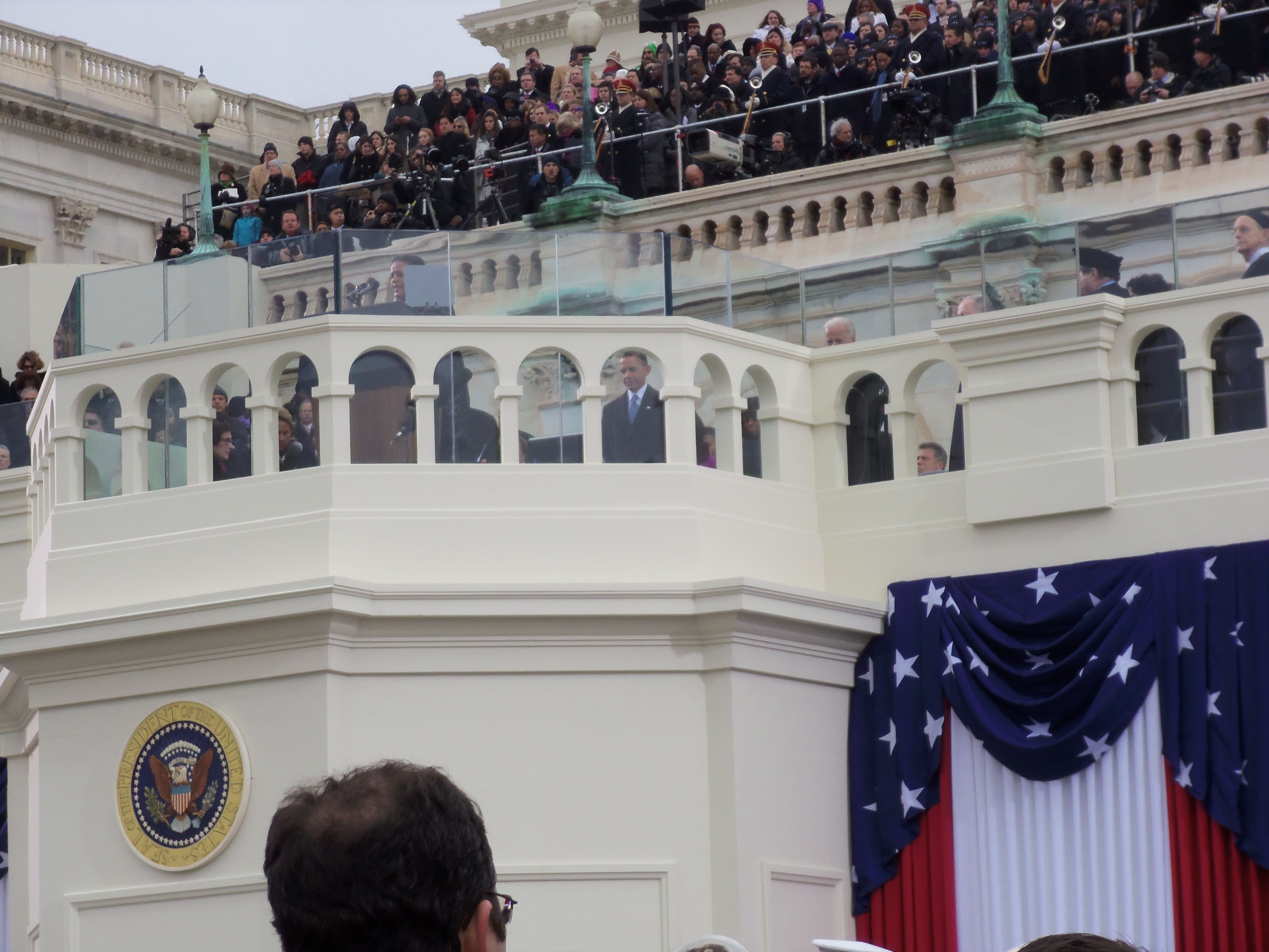 2013 Inauguration of President Barack Obama. View from the lower platform on the West Front of the United States Capitol. Myrlie Evers-Williams, widow of slain civil rights activist Medgar Evers, delivers the invocation. President Obama can be seen in one of the arch's in the center.